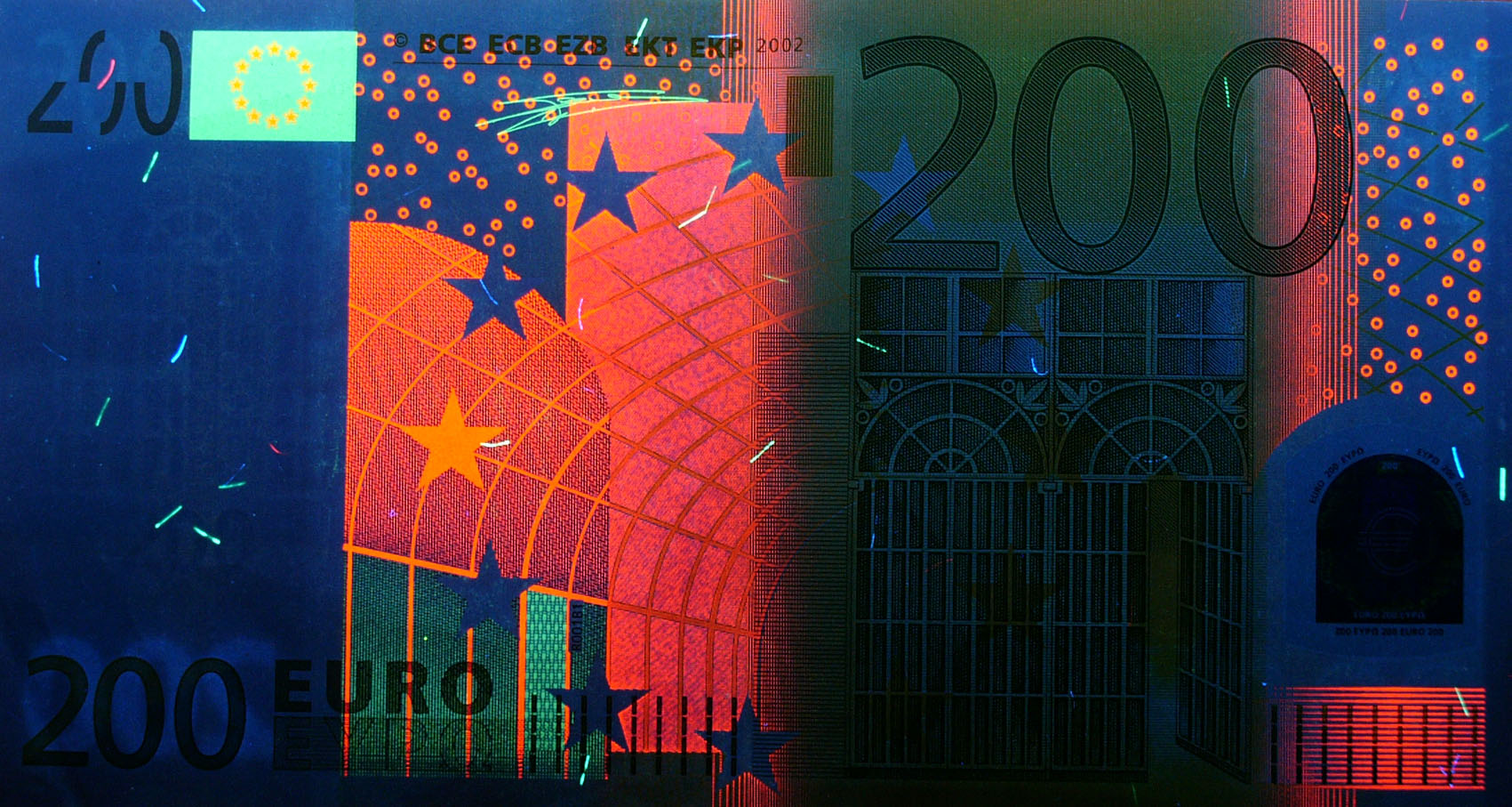 200-euro banknote under fluorescent light (UV-A)